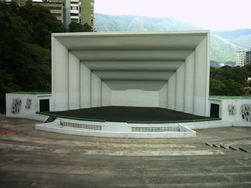 I´m the author of this photo, i take it in September 2006. Guillermo Ramos Flamerich